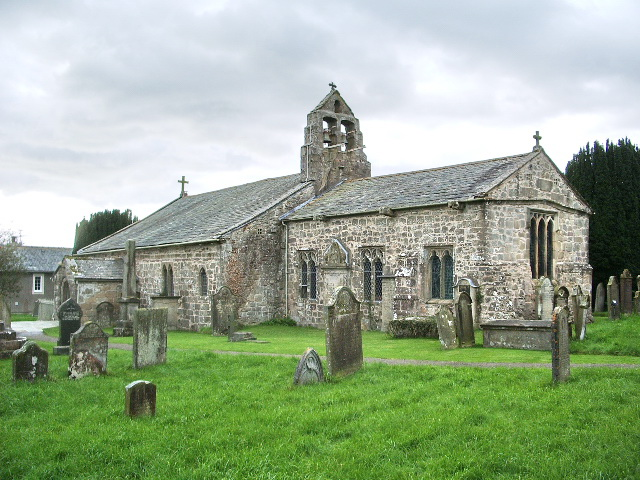 Photograph of St Oswald's church, Dean, Cumbria, England, from the southeast